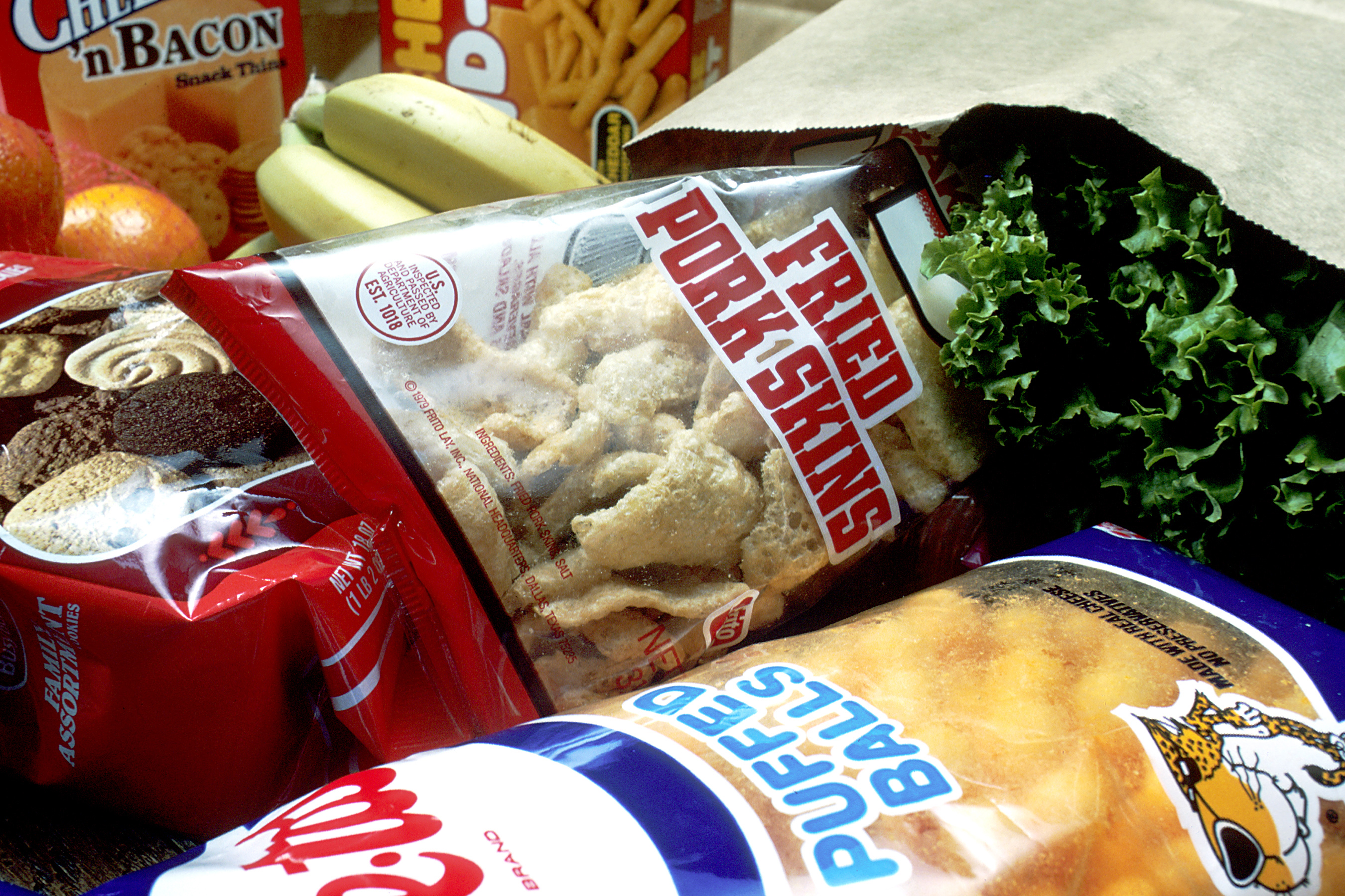 Title Grocery Bag of Junk Foods Description A grocery bag spills out junk food (Cheetos, fried pork skins, cookies, cheddar and bacon crackers). There are bananas, oranges and lettuce hidden in the background. Topics/Categories Food and Drink Type Color, Photo Source National Cancer Institute